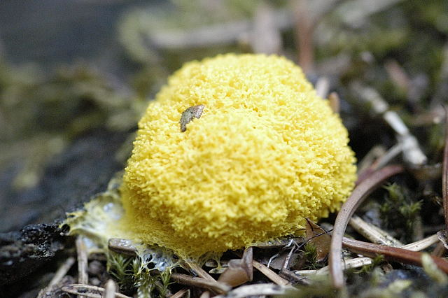 Picture taken in Commanster, Belgian High Ardennes. Species: Fuligo septica The determination of the species shown in this picture has been verified.